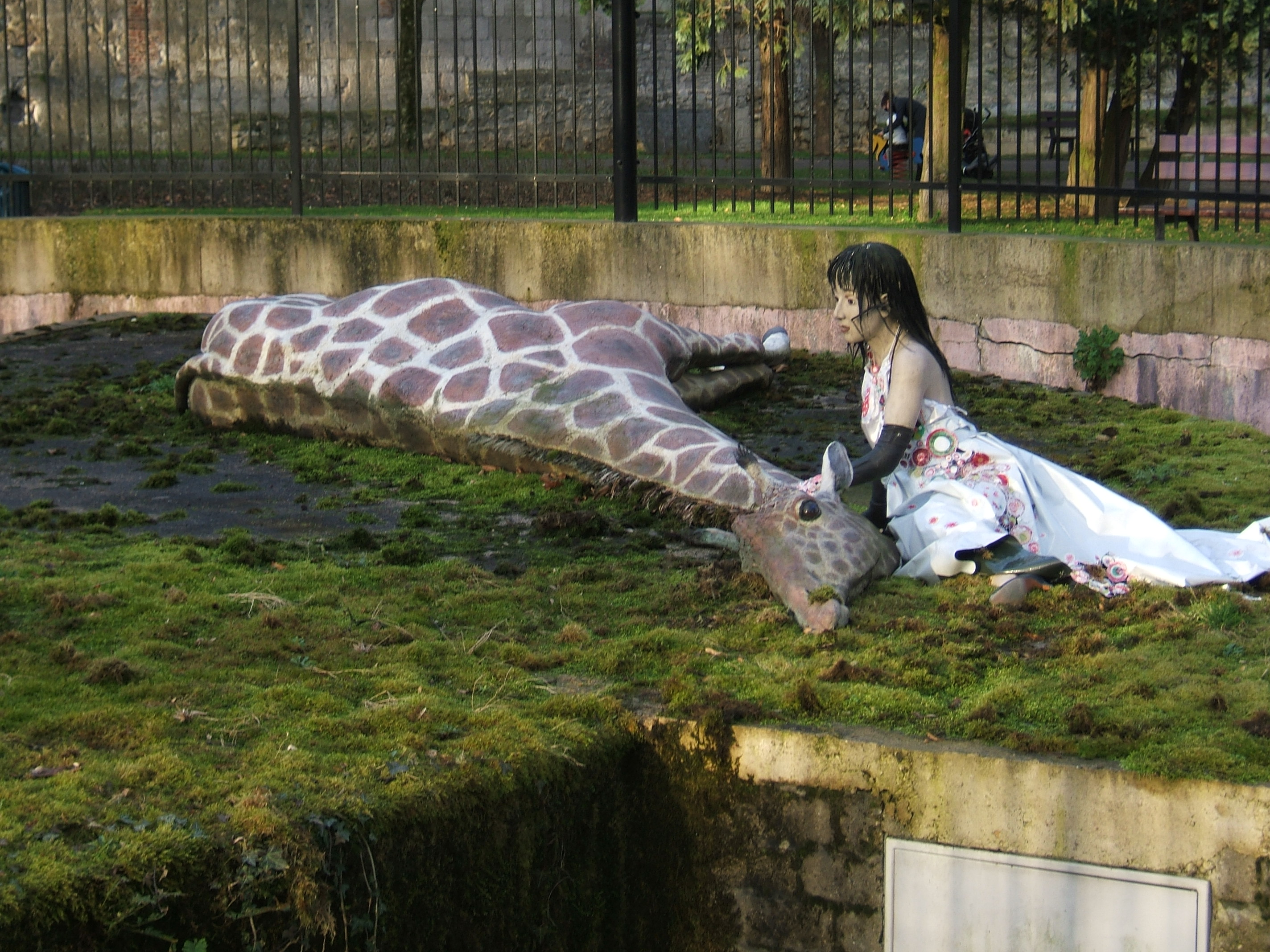 Halfautomatische Troostmachine, sculpture by Michel Huisman, in Maastricht.